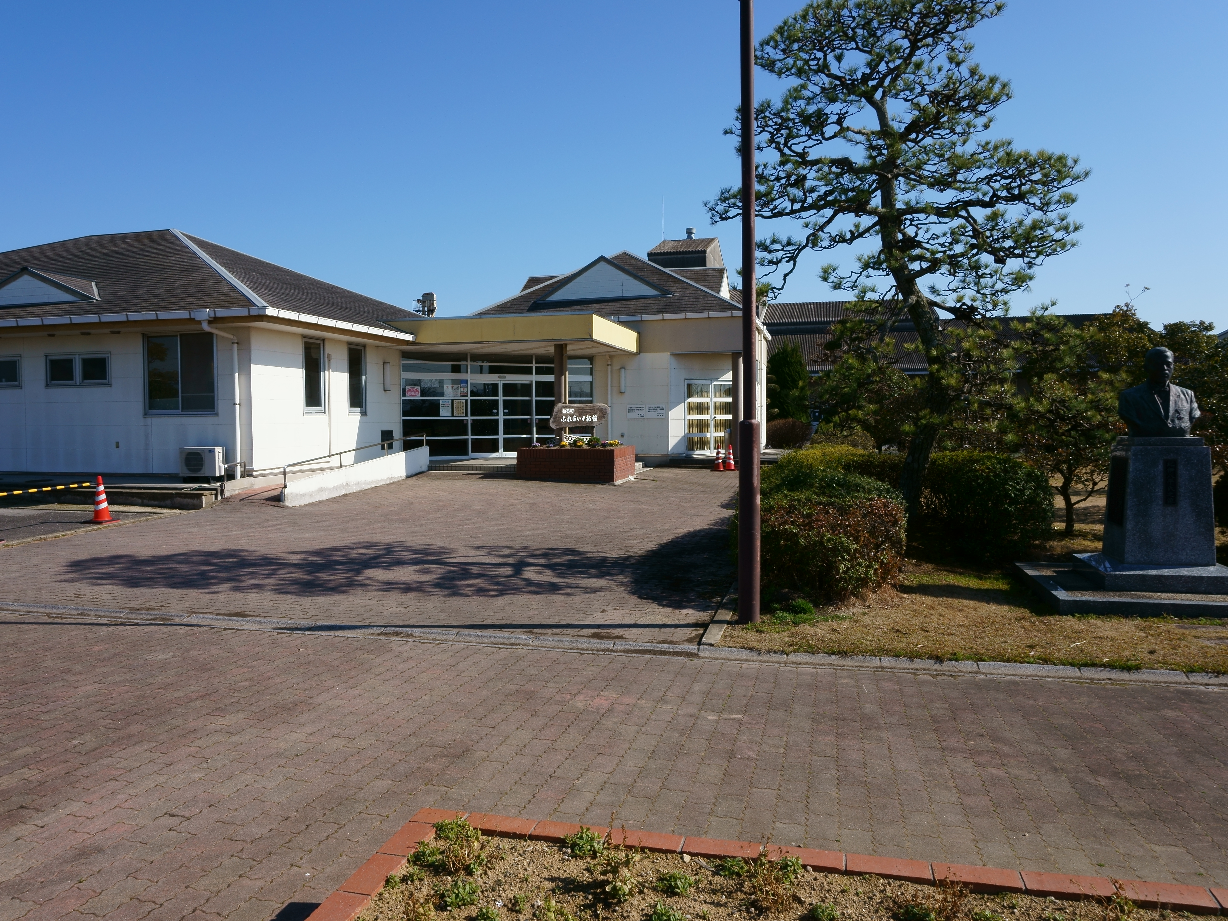 "Fureai Kantaku-kan", a land reclamation museum in Fukudomi, Shiroishi town, Saga prefecture.